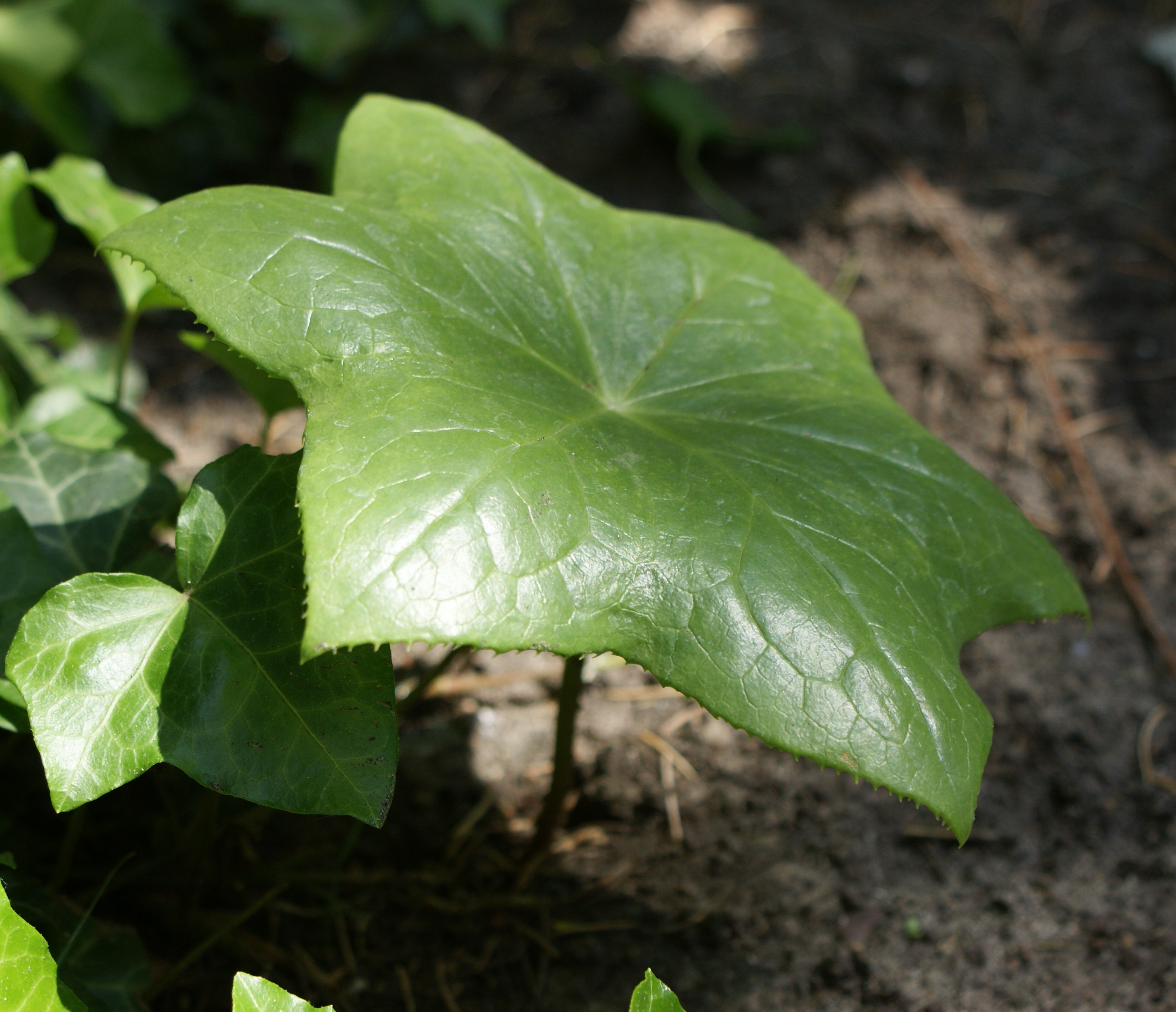 Dysosma cf. pleiantha. In garden in Szczecin (NW Poland)